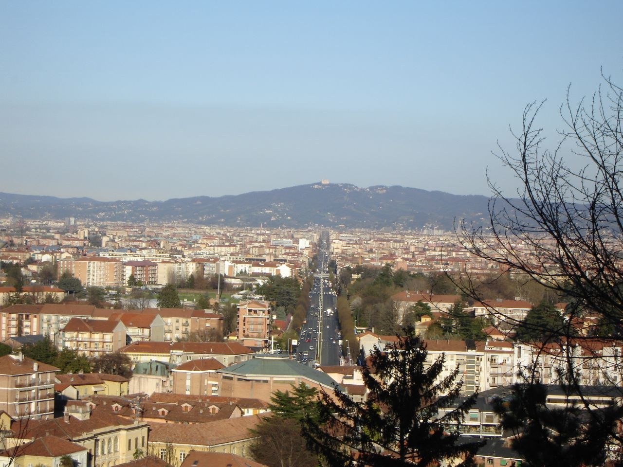 Corso Francia between Rivoli and Turin